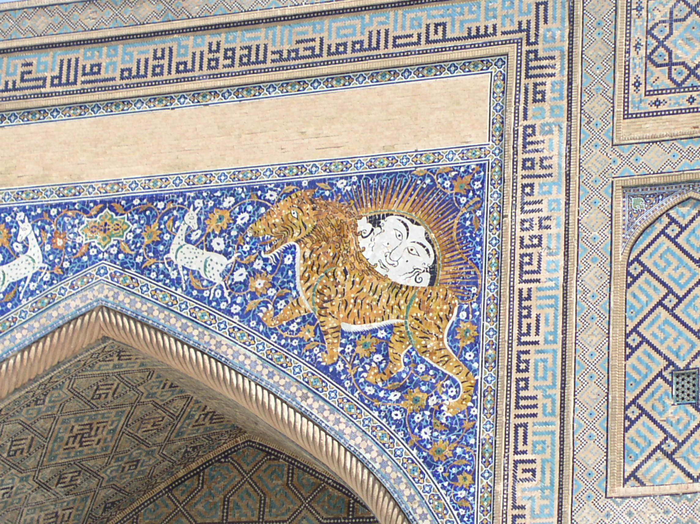 Tiger on the Sher-dor madrassa portal, Samarqand, Uzbekistan